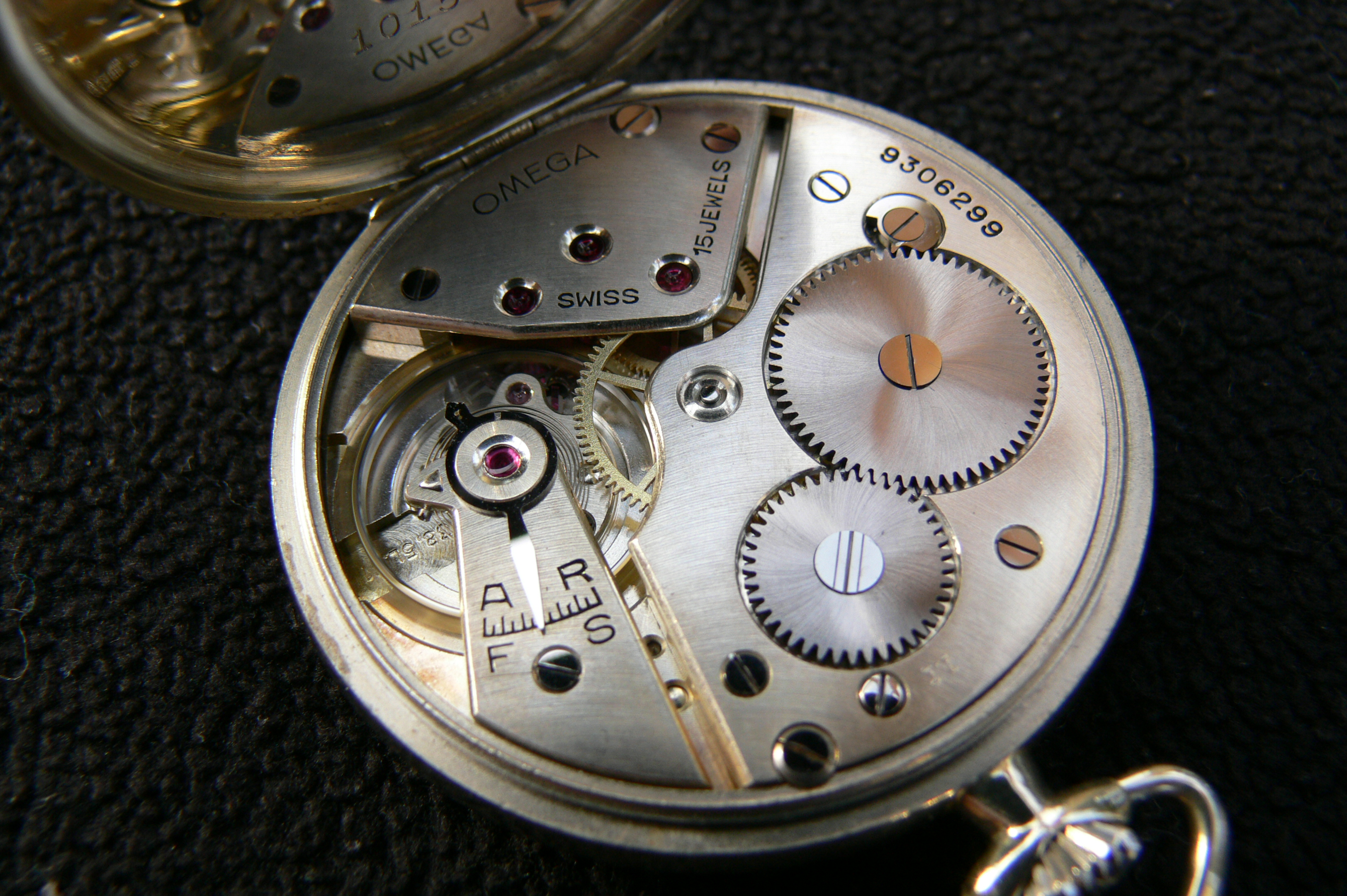 Omega Pocket Watch, Lepine Style. 38.5 Caliber December 1941. My own watch.